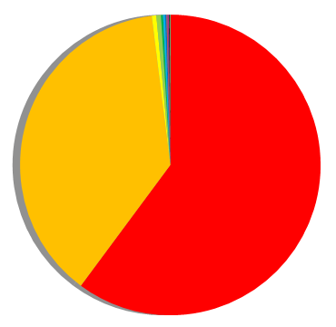 Expressed as a pie chart in the Tokyo gubernatorial election in 1983, the number of votes for each candidate.